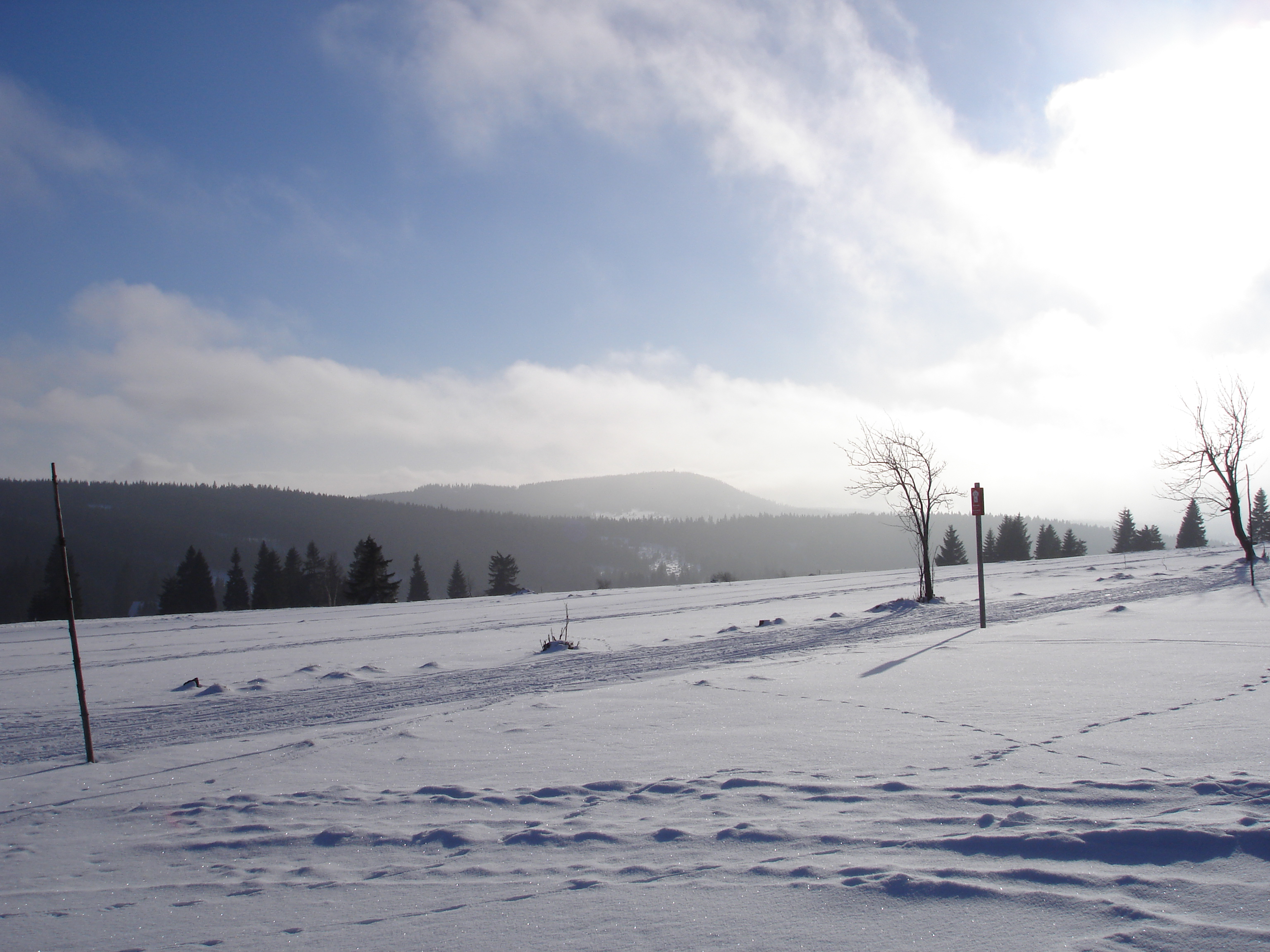 mountain Plešivec, Czech Republic